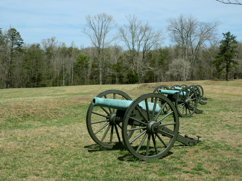 Chancellorsville battlefield, Union guns on Fairview hights